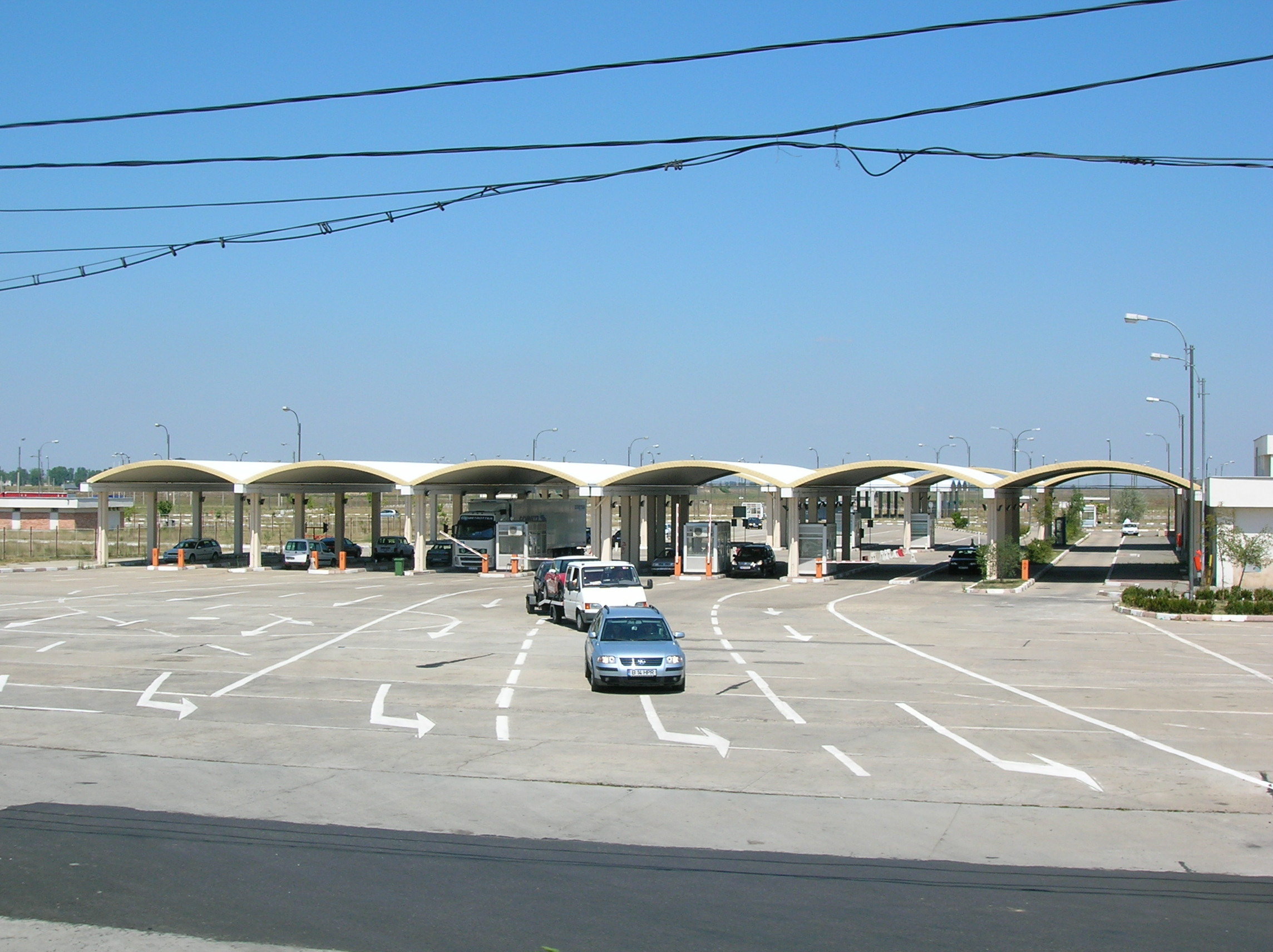 Border control in Giurgiu (Romania) before the bridge over the Danube to Ruse (Bulgaria). (seen from the train) NB: this shot has been taken a few months after the two countries became members of th European Union.